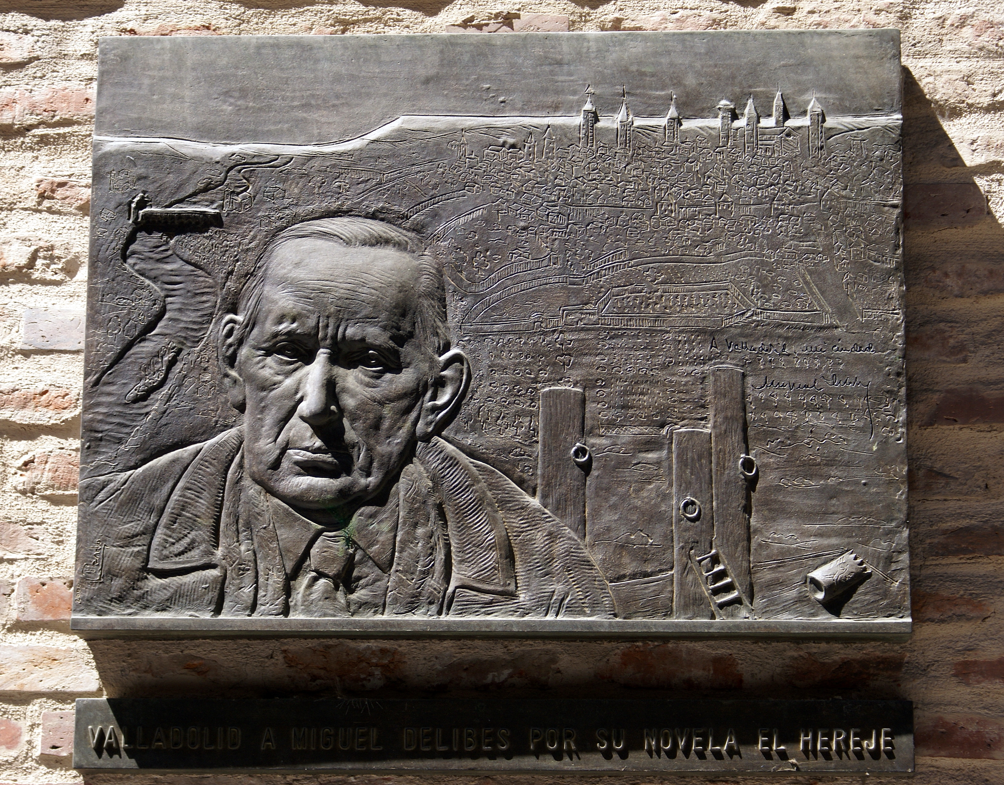 Miguel Delibes' plaque in Santiago Street of Valladolid.